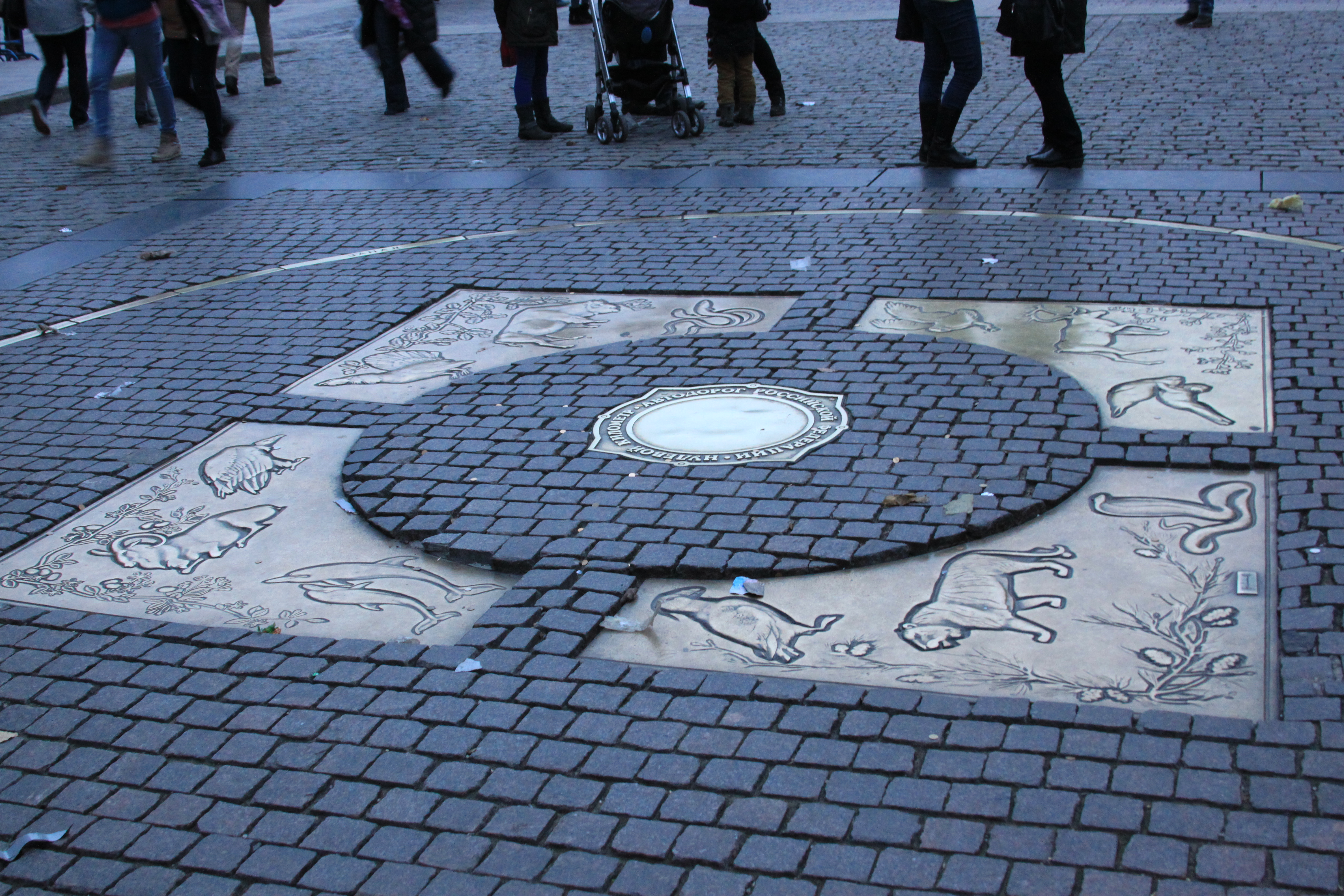 2014 Moscow Kilometre zero